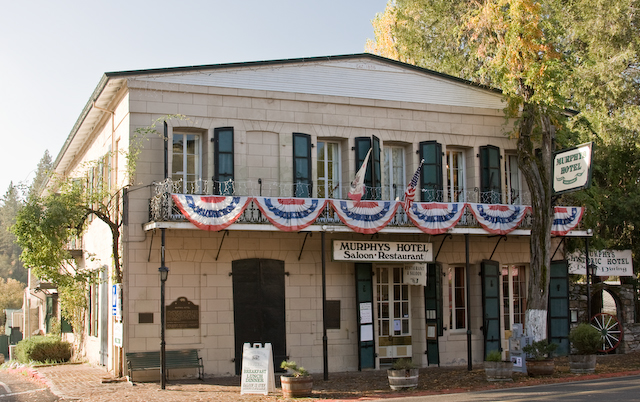 Photo of the historical Murphys Hotel.